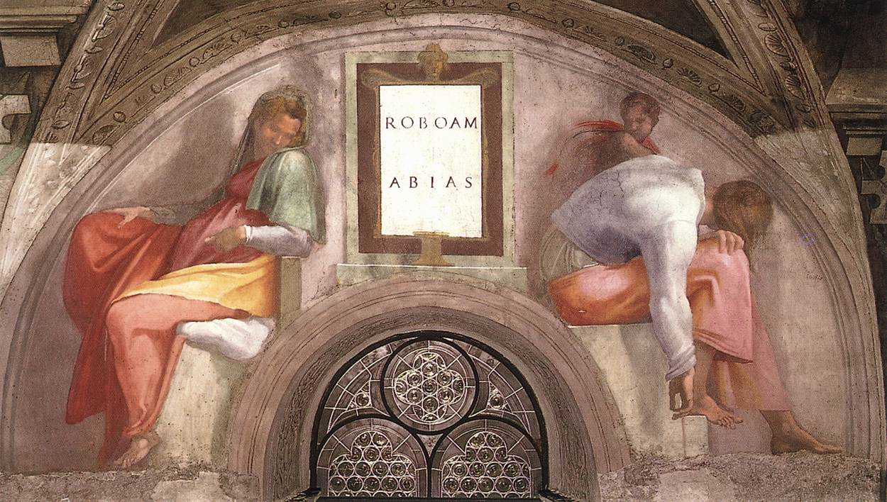 fresco painted by Michelangelo at the Sistine Chapel in the Vatican between 1508 to 1512